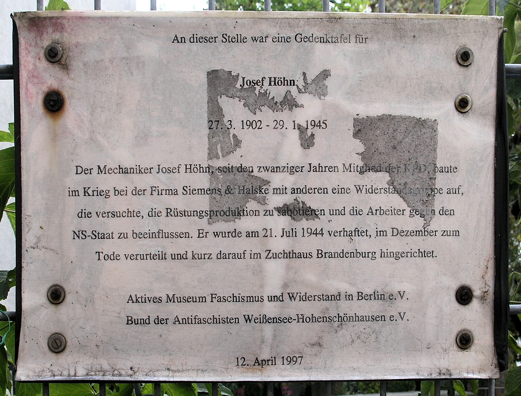 Memorial plaque, Josef Höhn, Börnestraße 20, Berlin-Weißensee, Germany